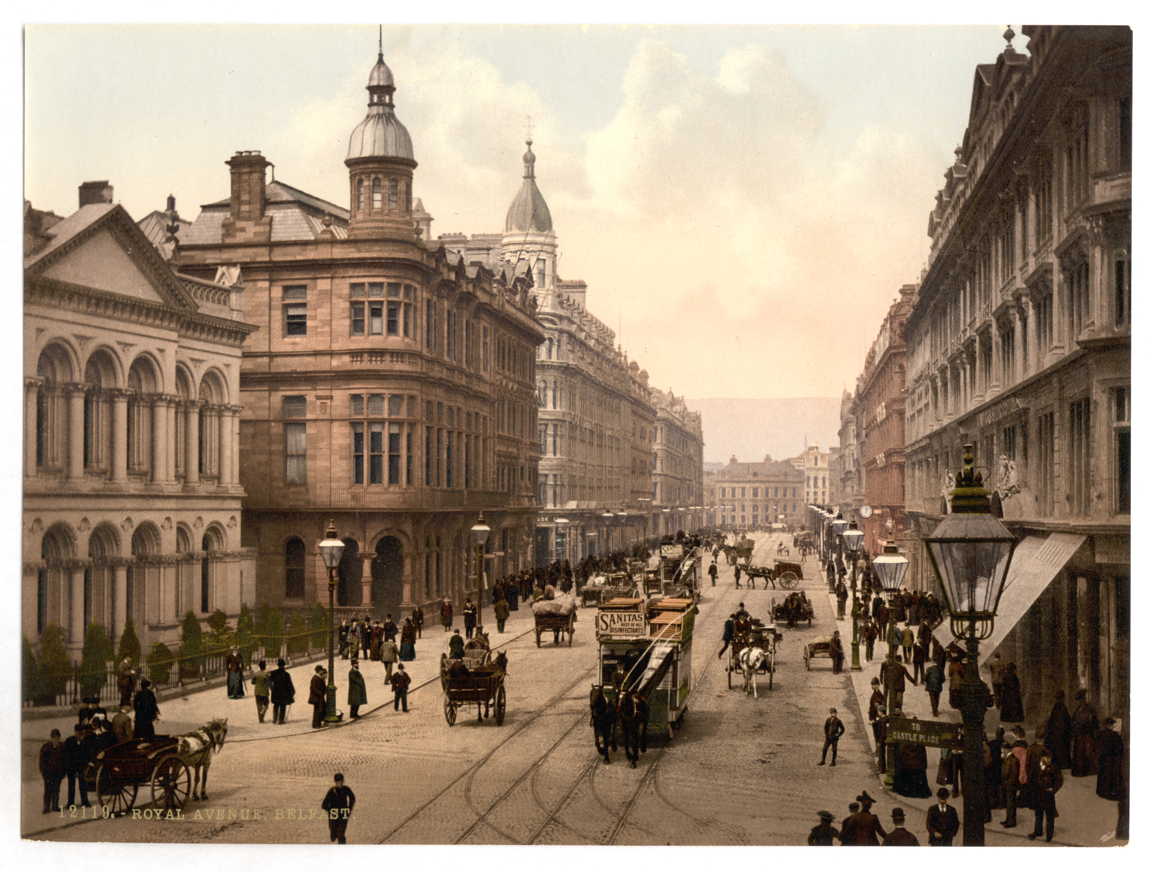 "Royal Avenue. Belfast. Co. Antrim, Ireland" Photochrom print.